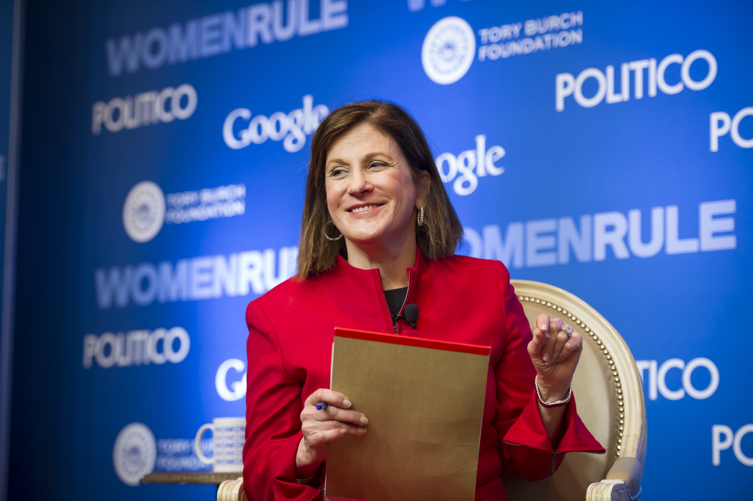 Politico's Lois Romano (left) is joined by Sen. Kirsten Gillibrand (D-N.Y.) during Politico's Women Rule, How Women Run: Power, Perception and Reality, at The Willard Intercontinental Hotel in Washington, DC, Tuesday, March 25, 2014. (Photo by Rod Lamkey Jr.)